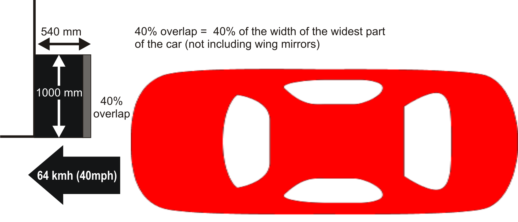 Euro NCAP front impact test